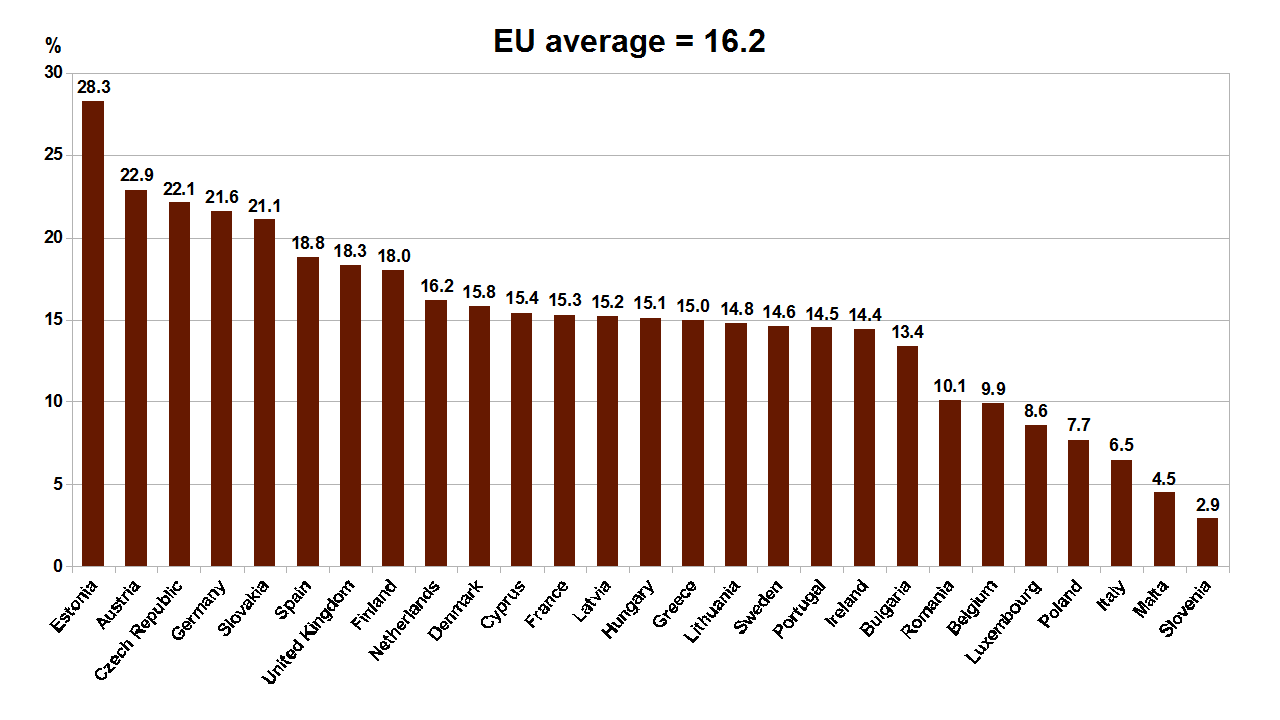 Gender Pay Gap in the 27 states of the EU according to Eurostat 2014